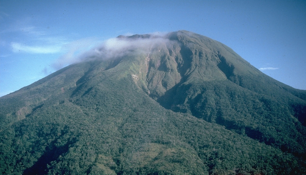 A dormant Mt. Bulusan